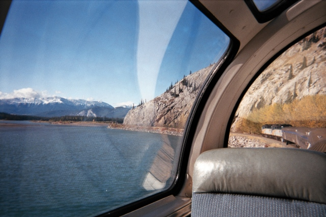 Jasper Lake with mountains in the distance as seen from the "Canadian" passenger train. I took the photo myself from the train in October 2011.